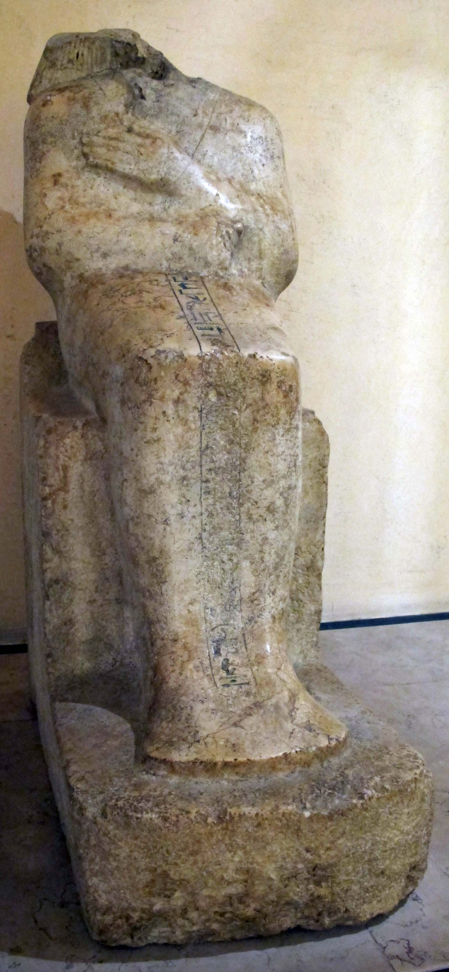 Egyptian antiquities in the Archeological Museum of Bologna